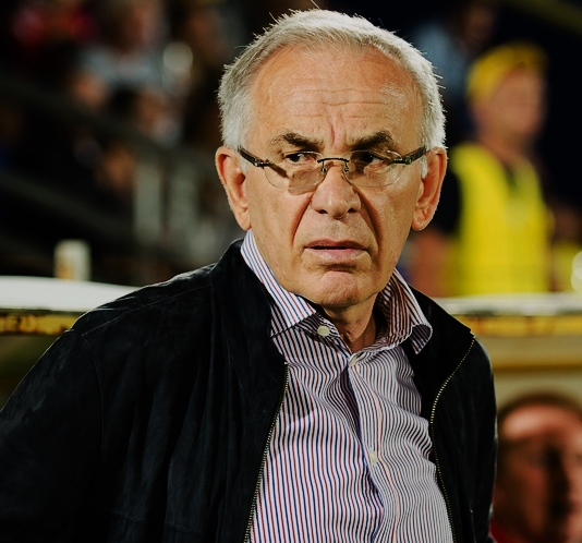 Gaji Gajiev